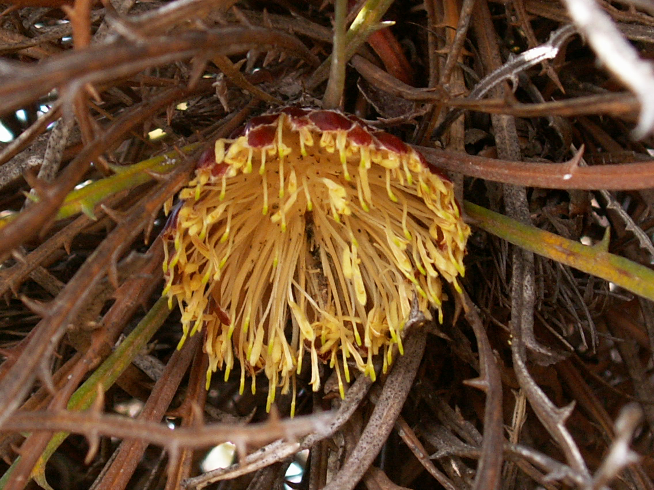 Banksia wonganensis growing near Mount Matilda.